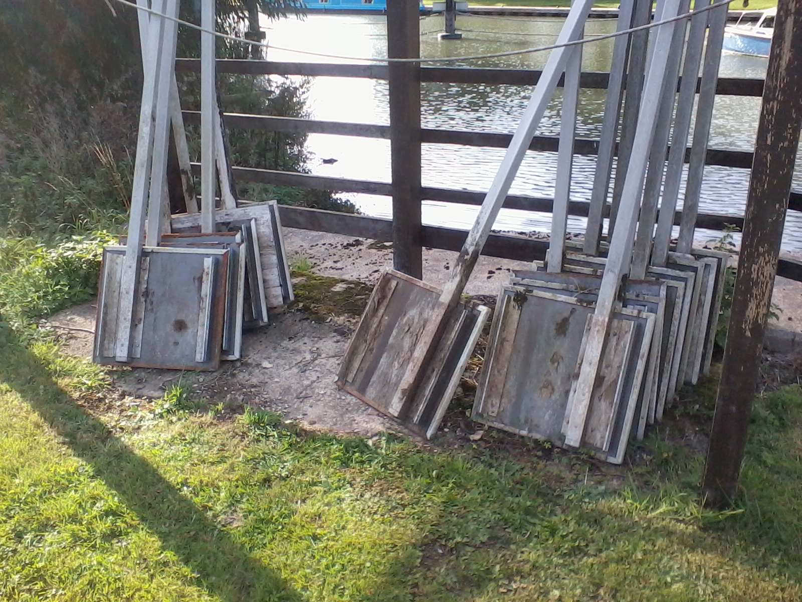 Paddles used for the Paddle and rymer weir at Northmoor lock on the River Thames. Originally these were made entirely of wood, but aluminium is now used.